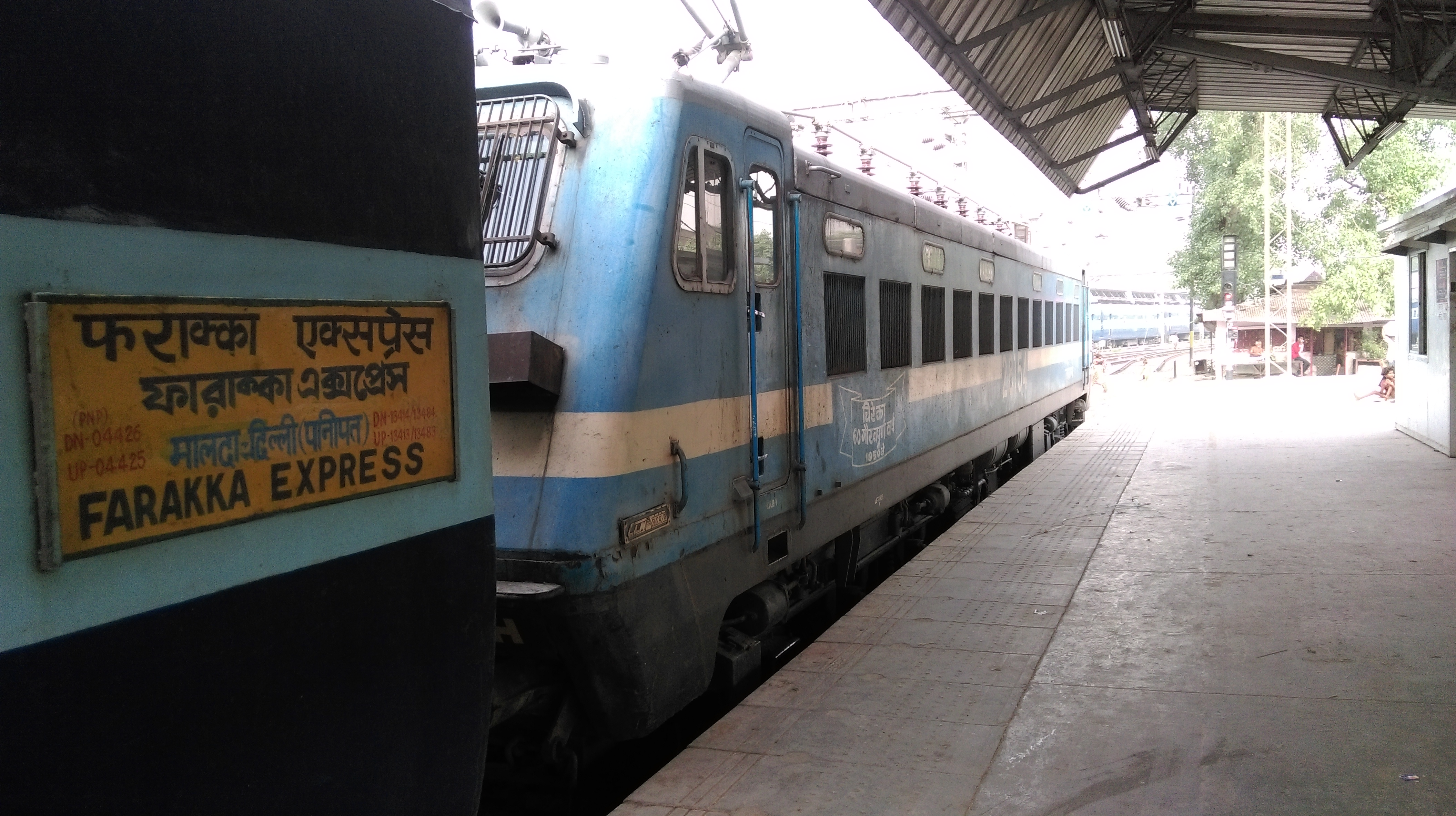 Farakka Express with WAG 7